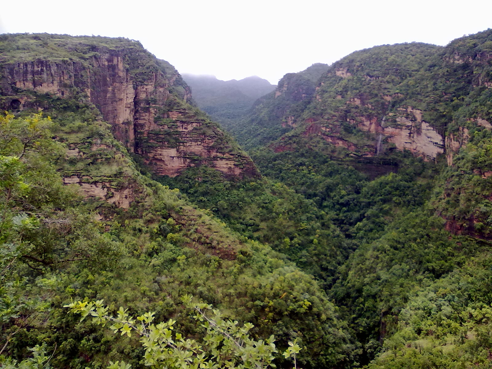 this is a photo of hills of a tourist place called pachmarhi, hoshangabad near bhopal madhya pradesh